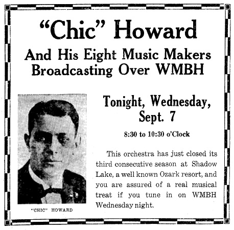 Advertisement for a "Chic" Howard broadcast over radio station WMBH in Joplin Missouri.